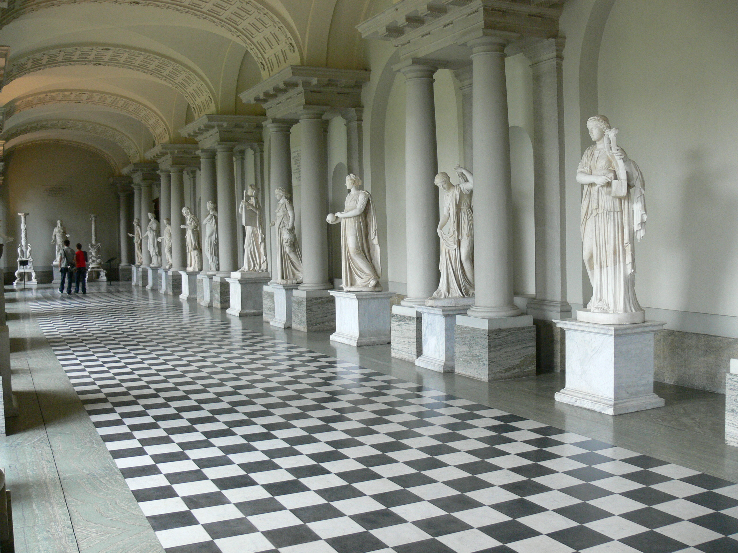 Museum of Antiques in the Royal Palace, Stockholm. Gallery of antique statues